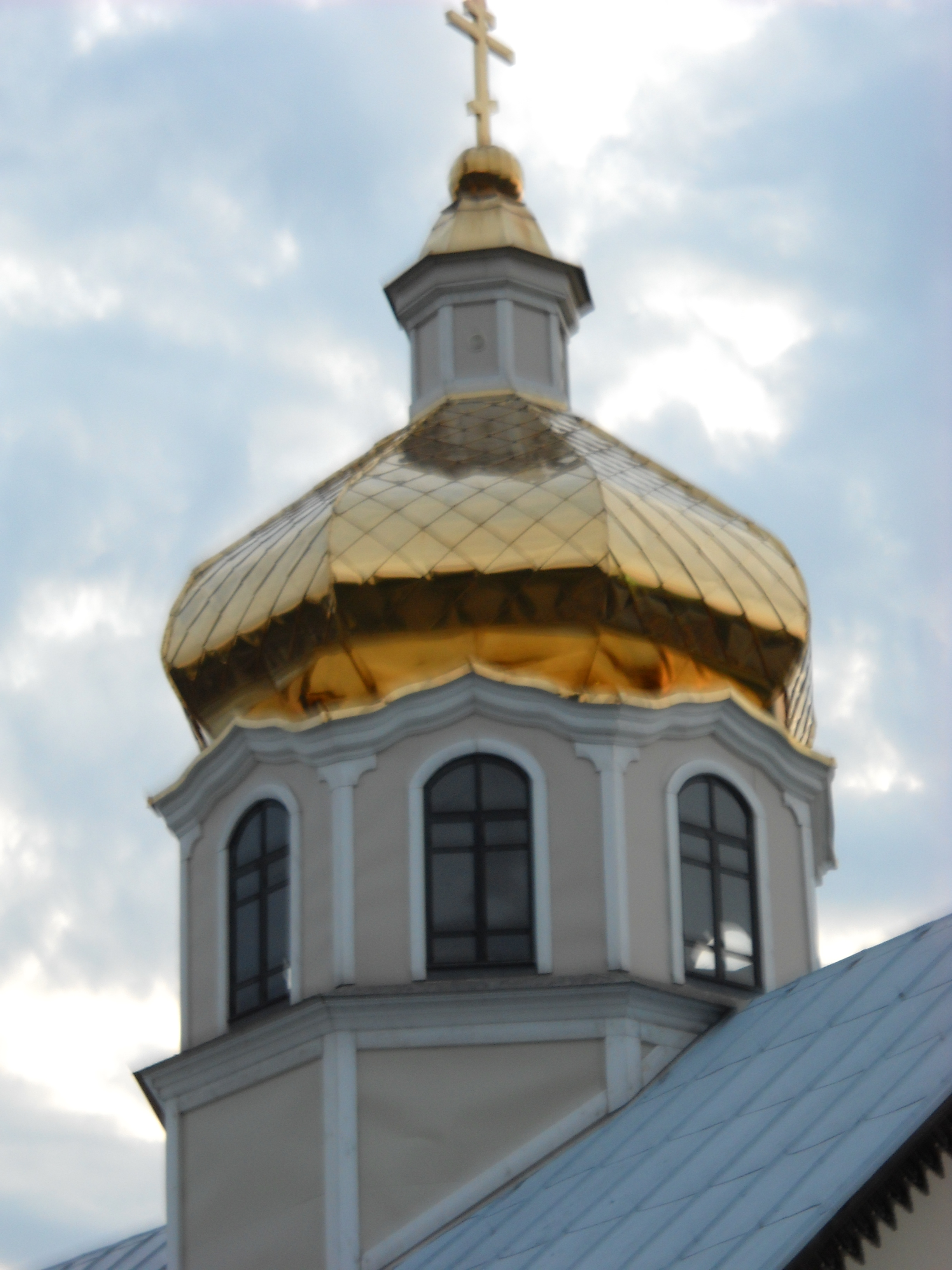 Old Believers chapel in Vilnius